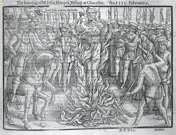 The martyrdom of John Hooper. Woodcut from the 1583 edition of John Foxe's Book of Martyrs. Source: [1]